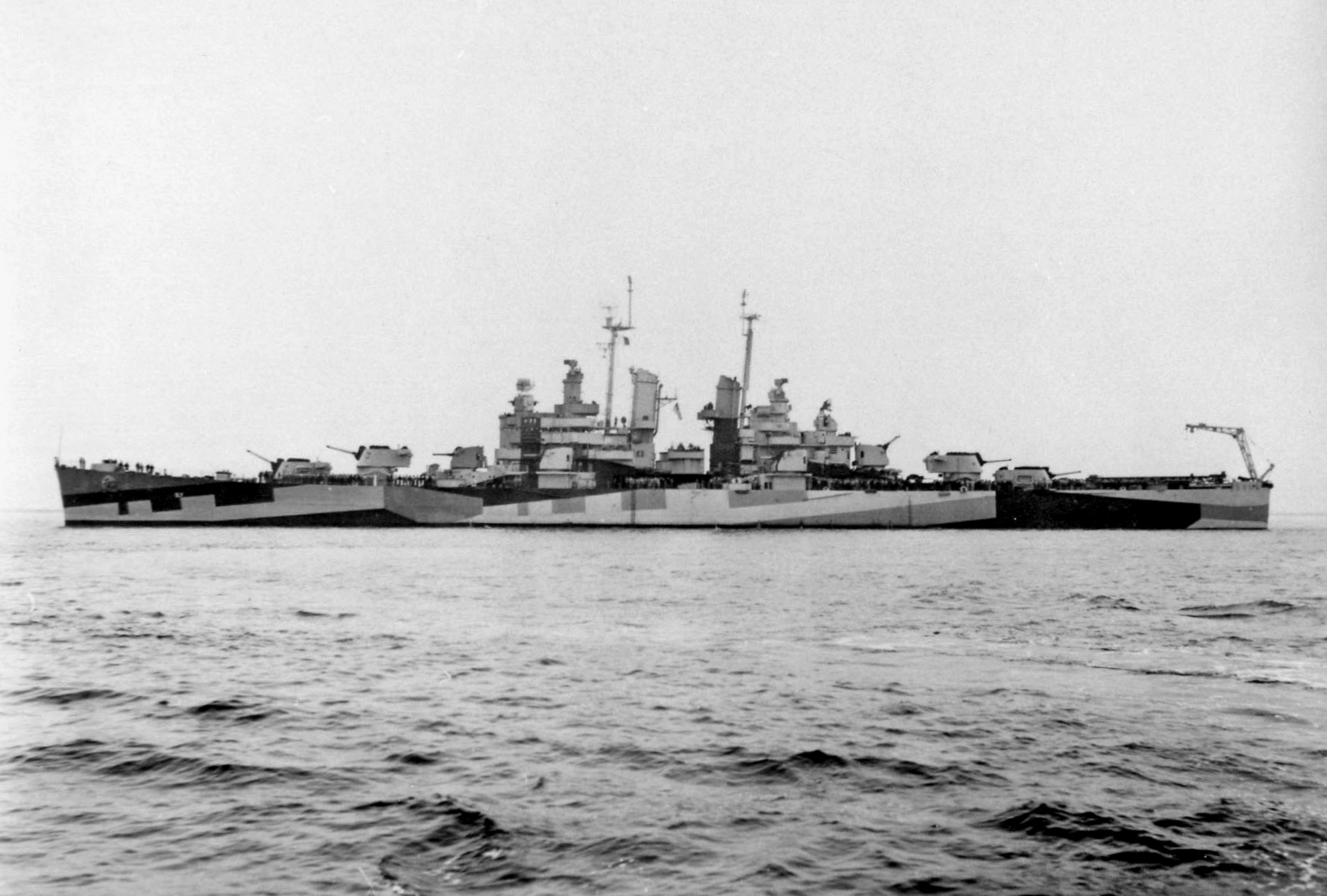 The U.S. Navy light cruiser USS Montpelier (CL-57) off the Mare Island Naval Shipyard, California (USA), on 18 October 1944. She was in overhaul at the shipyard from 22 August to 25 October 1944. Her camouflage scheme is Measure 32, Design 11a.